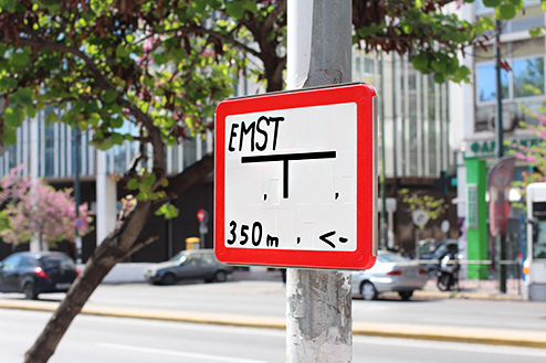 For the signage outside we use conventional signs from the street. we use a common version from kassel, which can be found everywhere on the street. The company who produces them is called ”franken plastik“ and they supply all of europe with it. even the signs in athens are produced by this company. The signs will stay during the exhibition as guides, after the exhibition they can be left to become part of the ”normal life“. one day they will disappear.